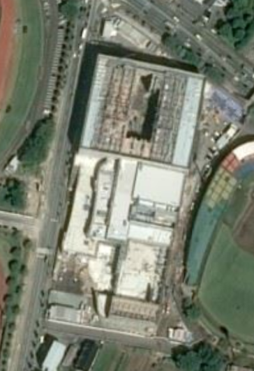 Satellite view